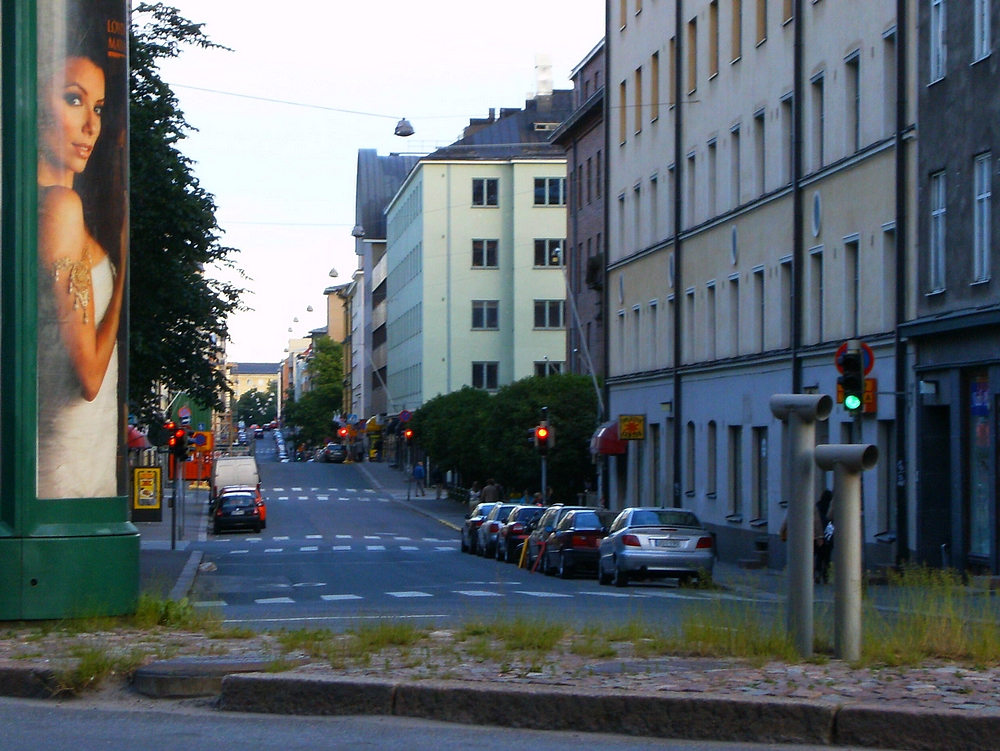 The street Albertinkatu seen from north-west to south-east on a night of July 2008, Helsinki, Finland